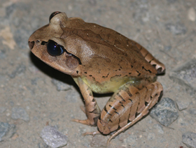 Mixophyes fasciolatus